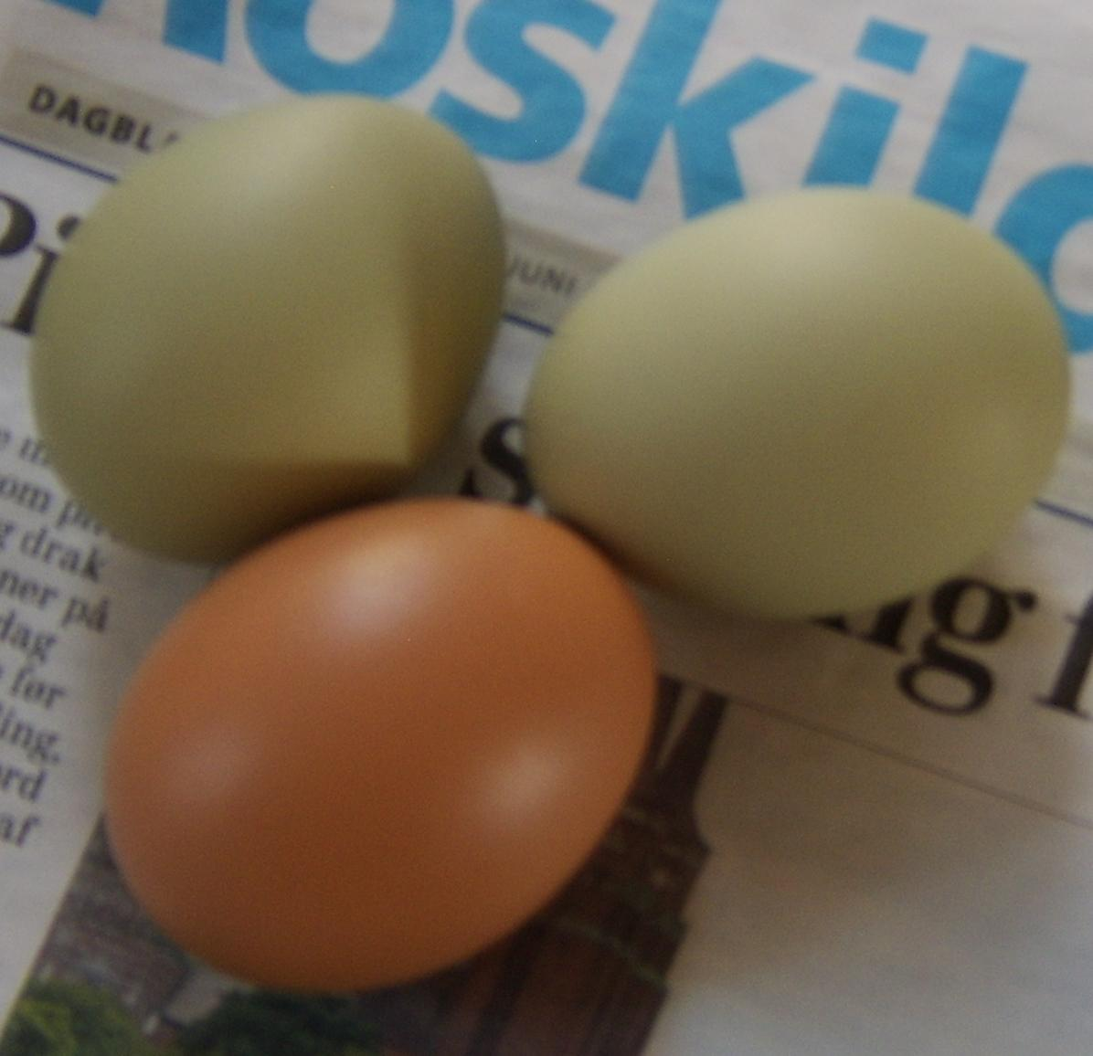 Easter Egger eggs and a normal ISA Warren egg